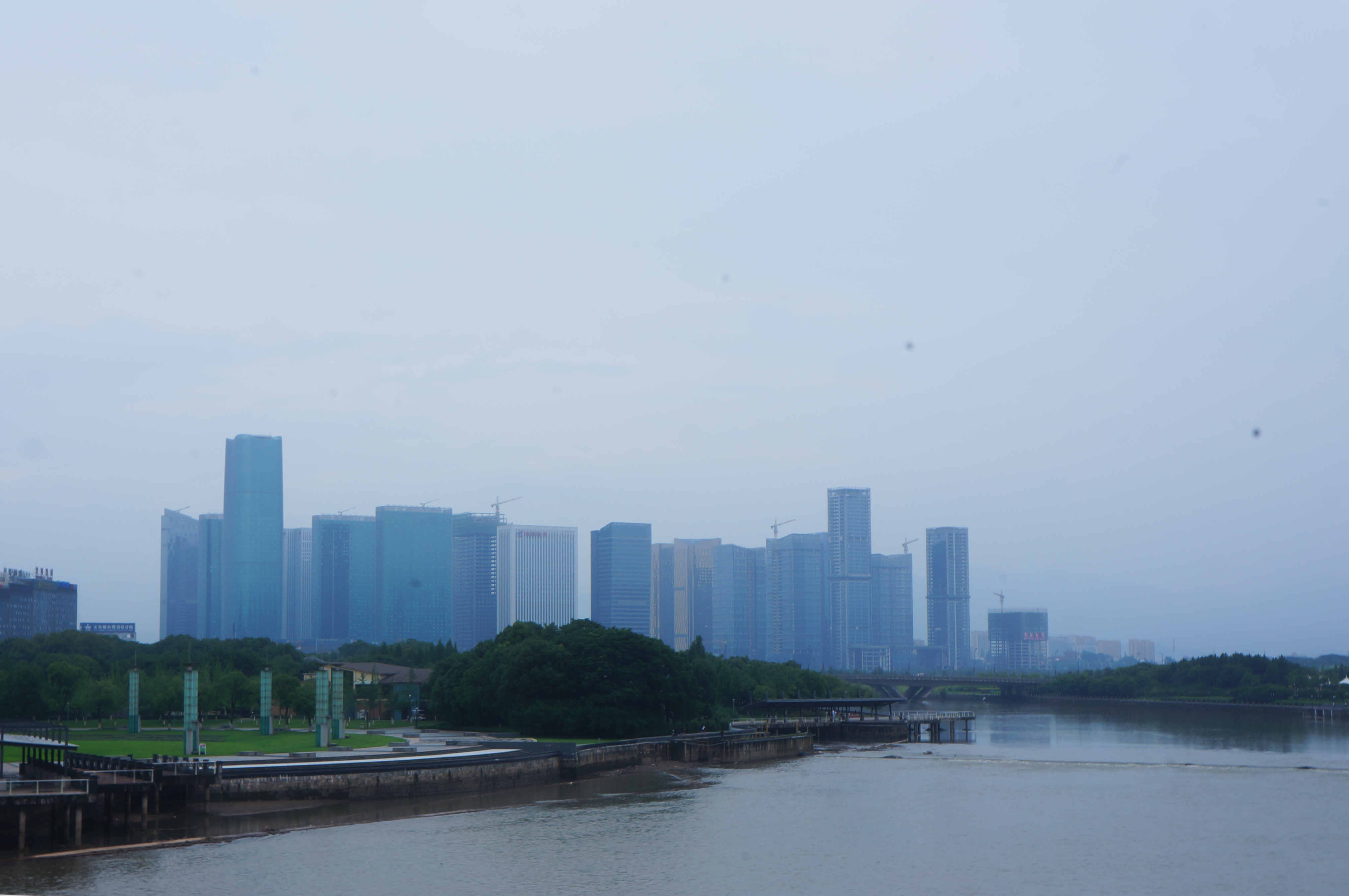 201706 Overview of Yiwu International Trade City